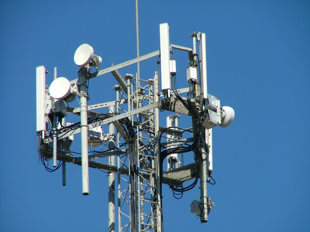 These make all that possible!